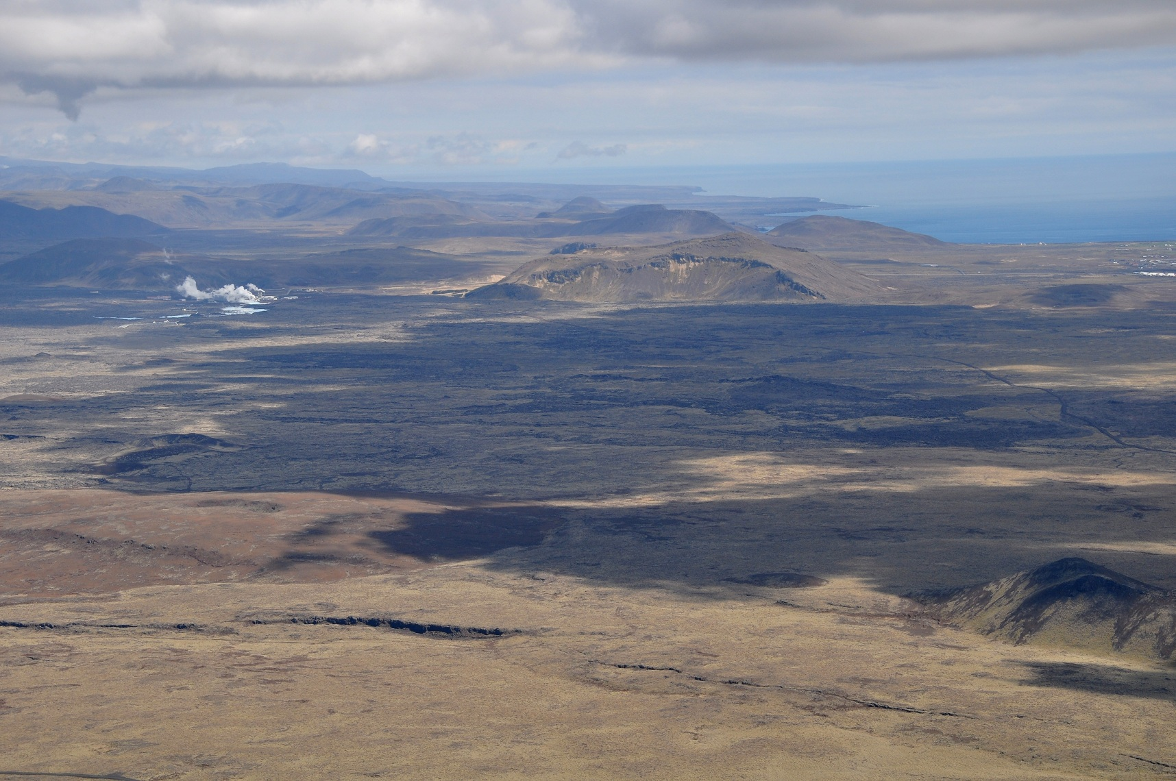 The Reykjanes Peninsula in Iceland is mostly a barren waste of lava fields. The steam on the left comes from the geothermal power station at Svartsengi. Surplus mineral rich and hot water from the plant fills up the Blue Lagoon, a tourist bathing resort.